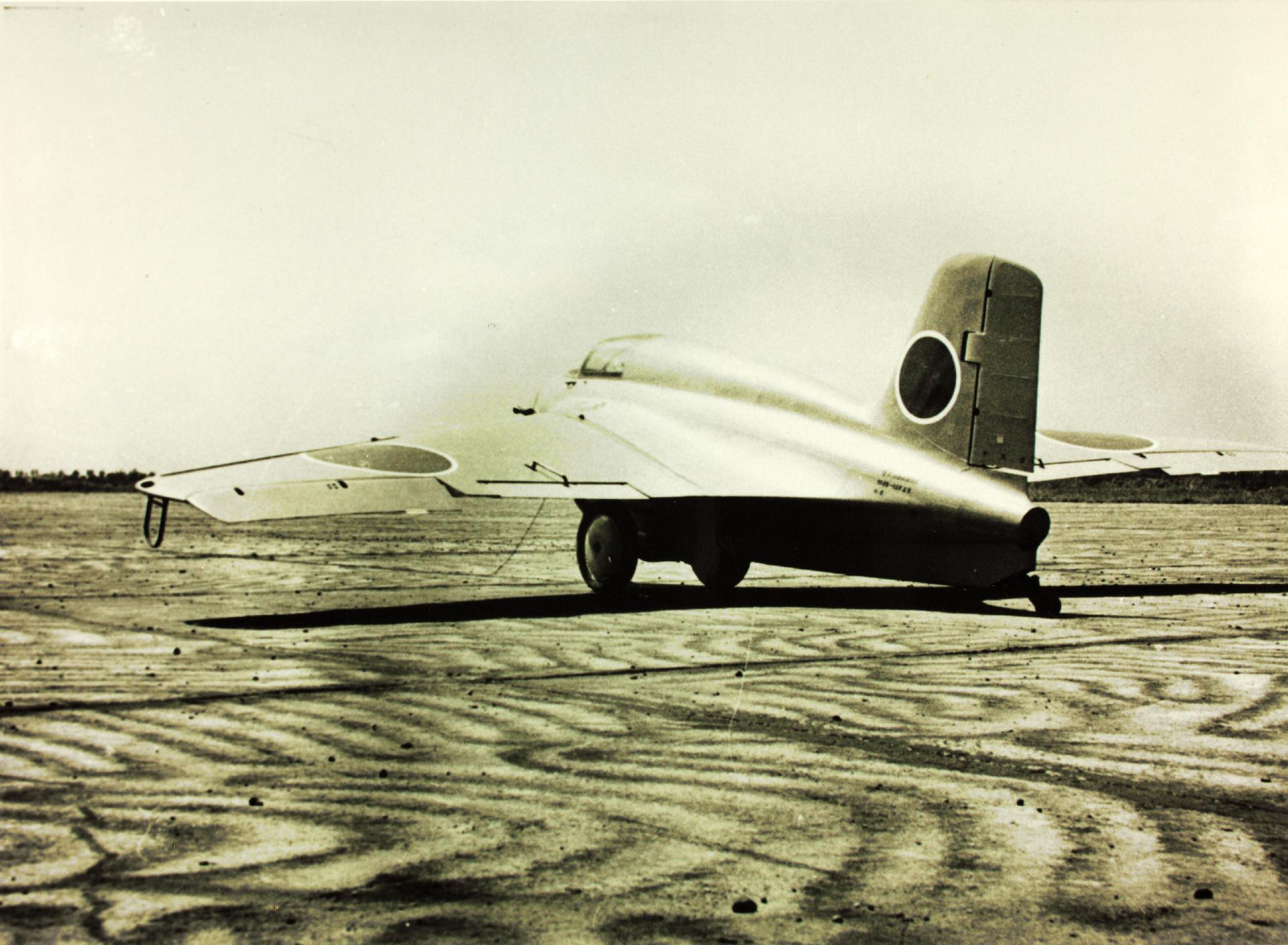 Mitsubishi, J8M1, Shusui